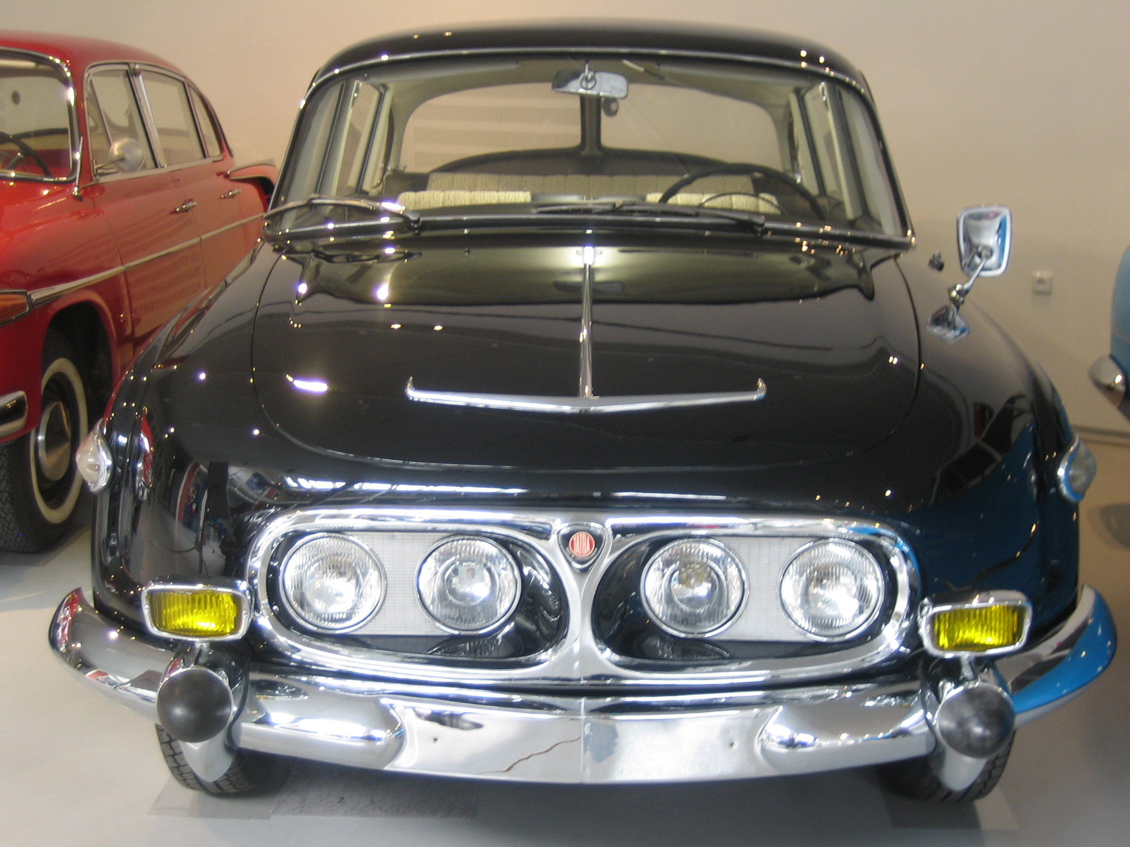 Tatra 2-603